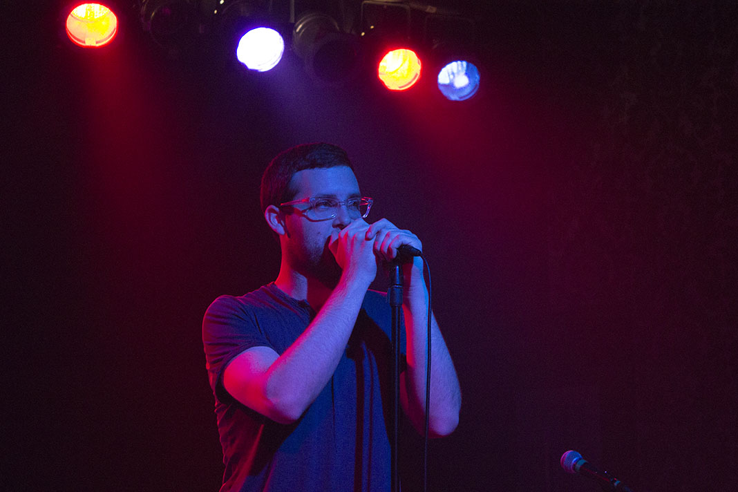 Baths performing in Portland ME